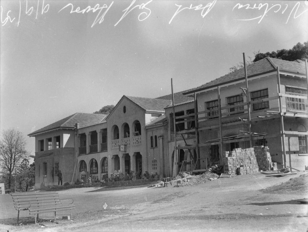 Victoria Park Golf Clubhouse during construction, Brisbane, 1939.